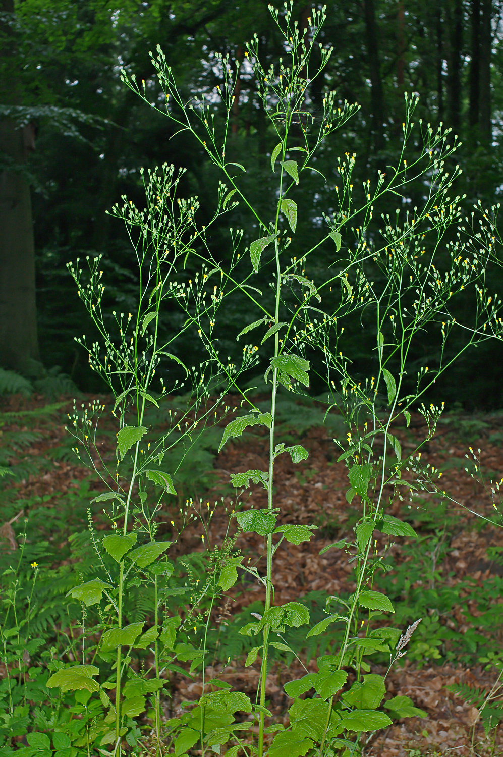 Habitus of flowering Nipplewort, Lapsana communis, with mostly closed blossoms.